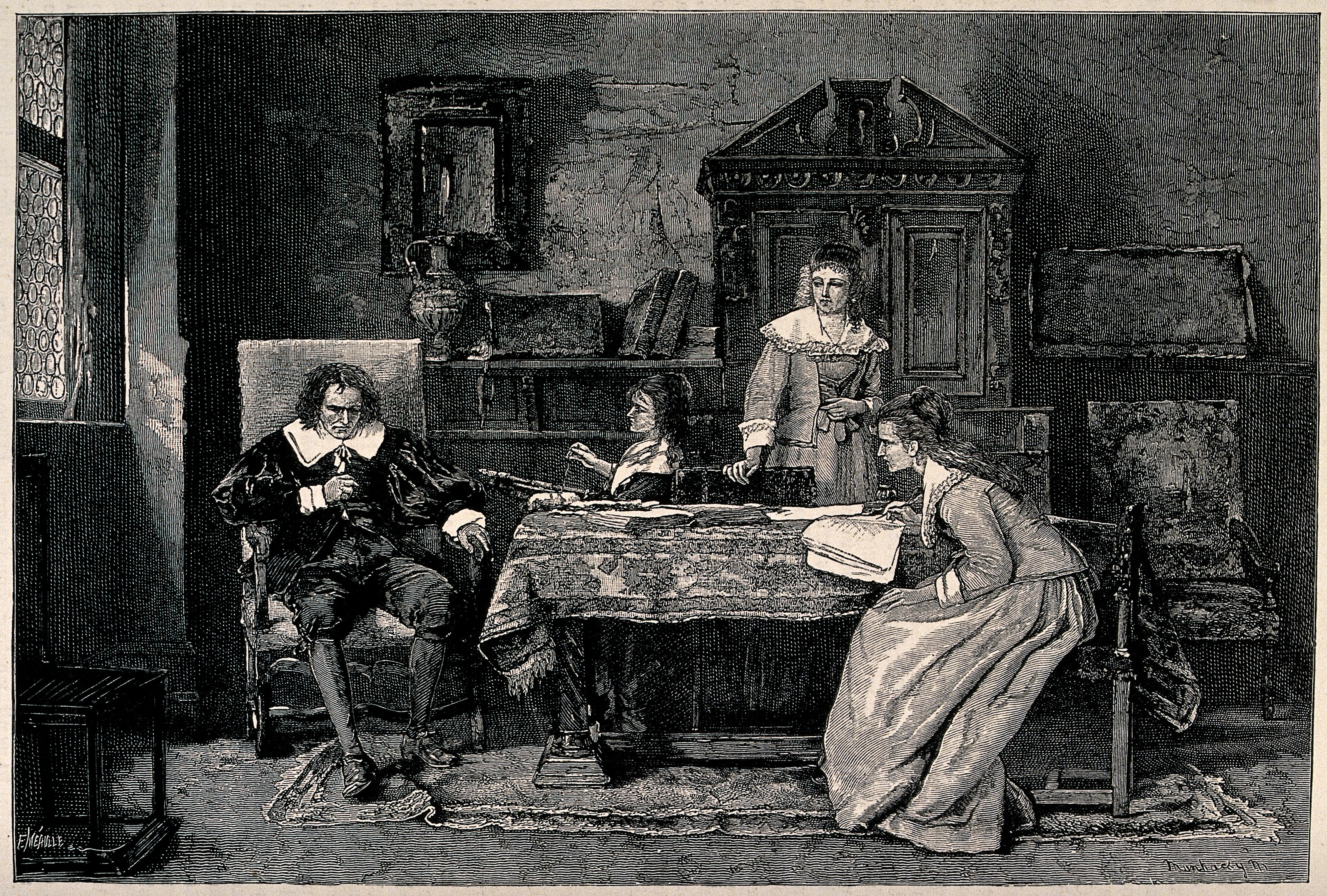 A family scene in which John Milton is depicted dictating Paradise Lost to one of his daughters while the other embroiders and his wife looks on. Wood engraving by F. Méaulle after Michael Munkacsy. Iconographic Collections